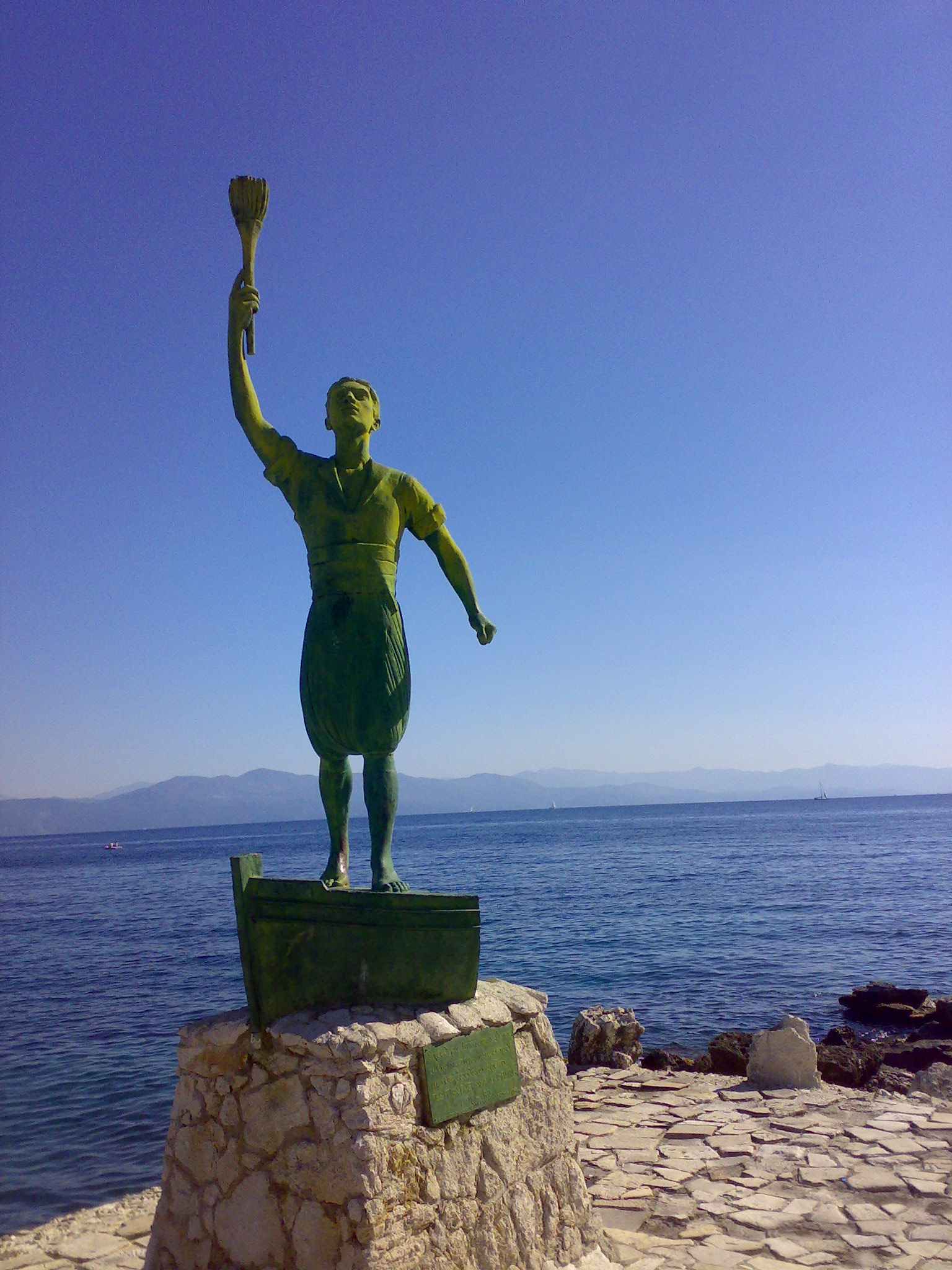 Statue of Georgios Anemogiannis, Gaios, Paxi, Ionian Islands, Greece